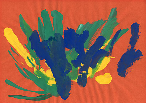 Painting by Congo as part of an experiment of Desmond Morris which didn't influence the chimpanzee